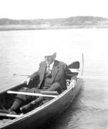 Louis Brandeis in his canoe